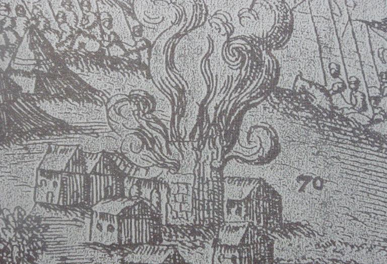 The Tatar's blast to the village Alsószölnök; Battle of Saint Gotthard (1664)